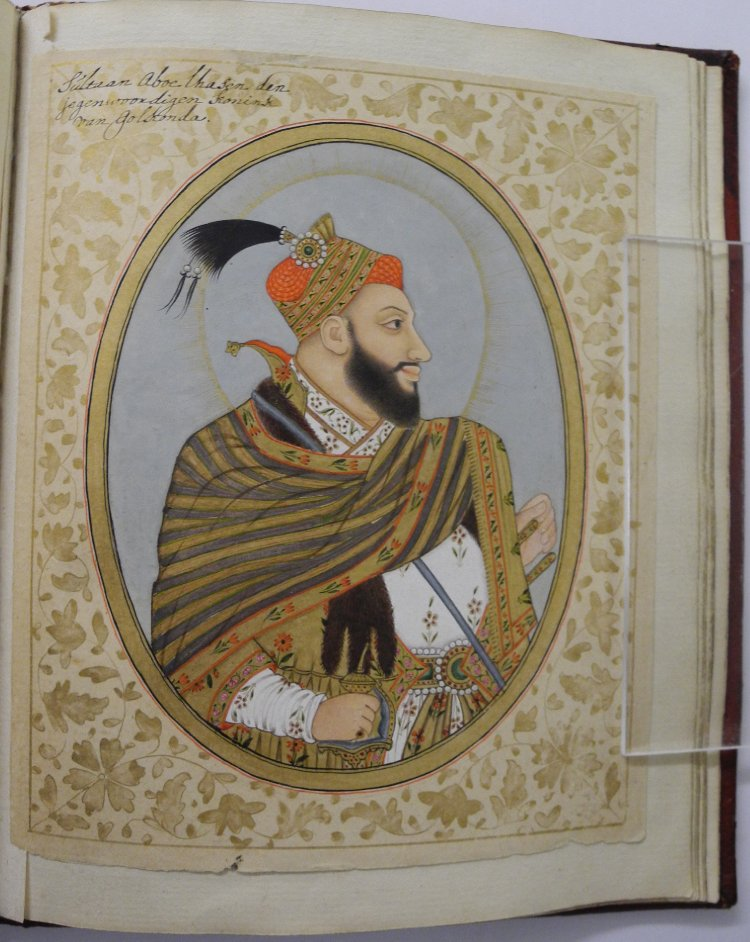 Album leaf. Portrait. ʿAbd'l-Hasan Quṭb Sháh + inscription. On paper.